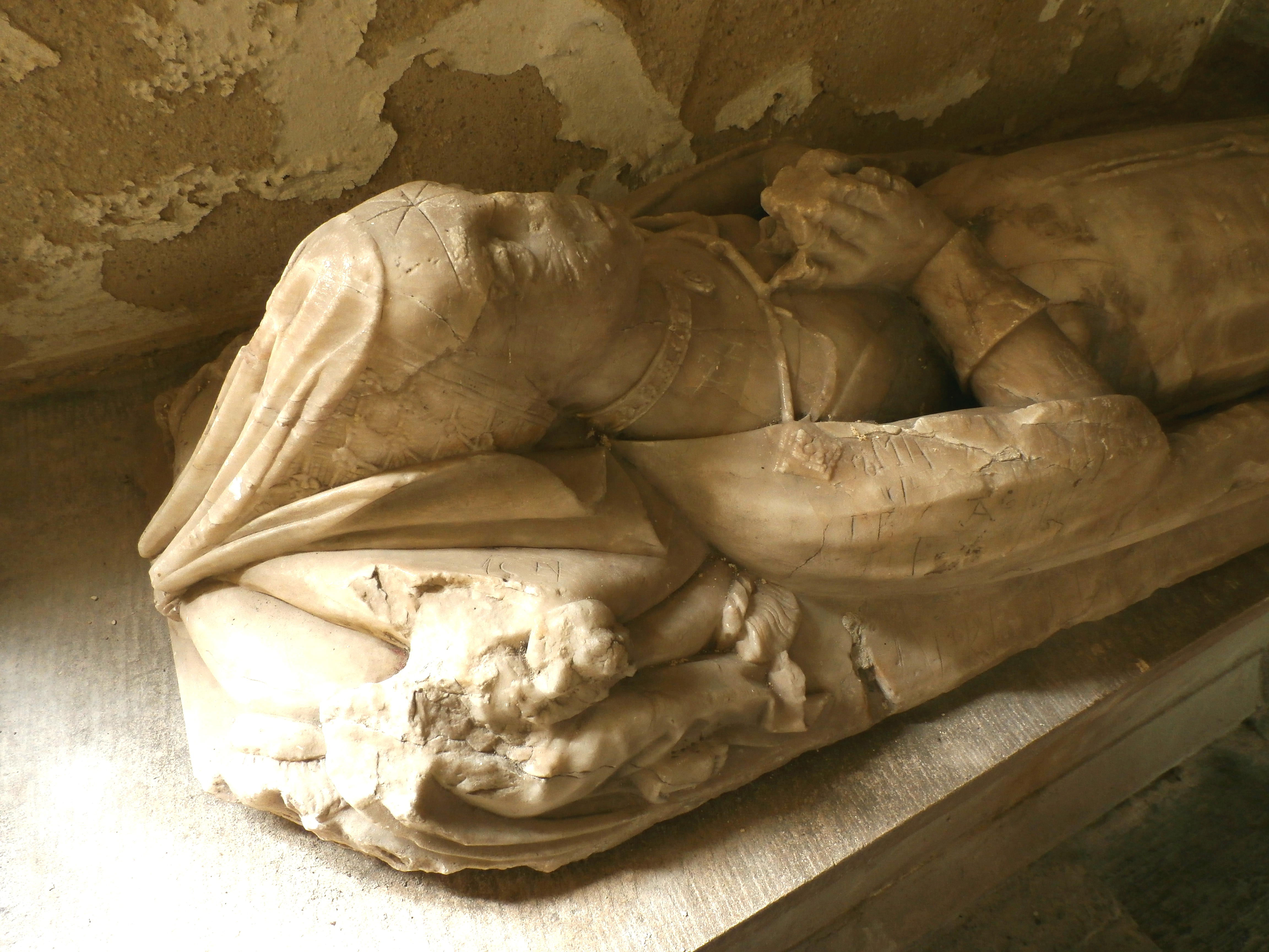 Head and torso of a late 15th-century alabaster effigy in St Peter's parish church, Ilton, Somerset. It is thought to represent Elizabeth Popham, heiress of Merryfield, Ilton. (Rogers, William Henry Hamilton, Memorials of the West, Historical and Descriptive, Collected on the Borderland of Somerset, Dorset and Devon, Exeter, 1888, pp. 147-173, The Founder and Foundress of Wadham, p. 161) She was the wife of Sir John III Wadham and the collar of roses worn around her neck is said to represent the crest of Wadham, a rose between a pair of antlers (as visible on the monument to Nicholas II Wadham (d. 1609) in Ilminster Church)